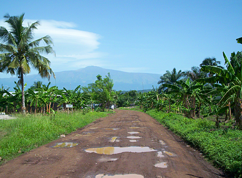 Mount Cameroon as seen from Tiko, Southwest Province, Cameroon. Taken by uploader with Kodak CX6200 digital camera on 15 April 2005.